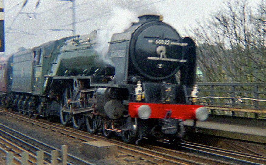 A2 Blue Peter at speed through Durham